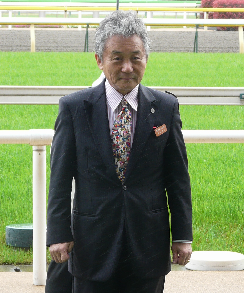 Tetsuhide-Kunimoto20110423